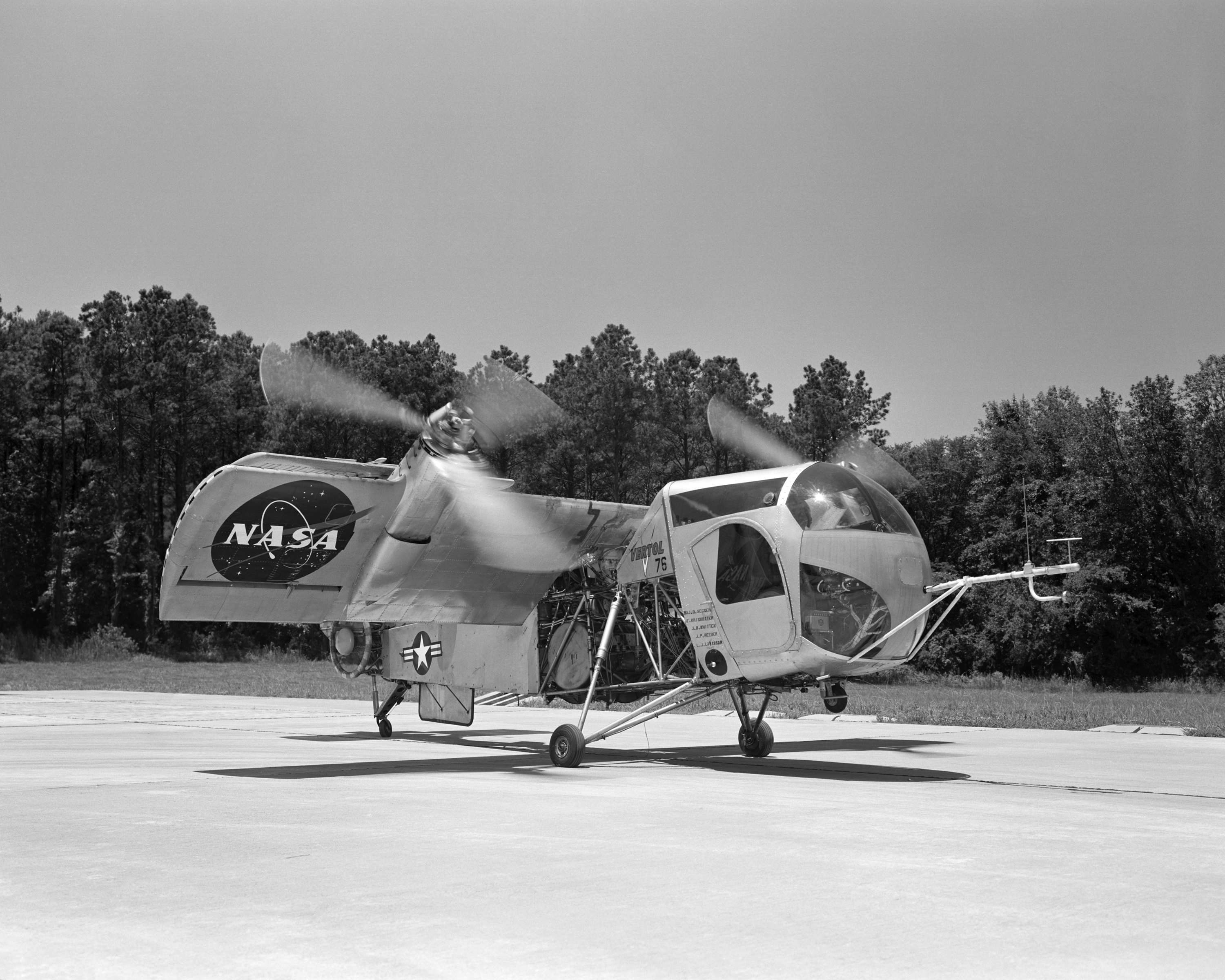 Arriving at Langley from Edwards Air Force Base, Califorina in 1960, this Vertol VZ-2 (Model 76) underwent almost a year and a half of flight research before going back to the manufacturer for rework. The VZ-2 was used to investigate Vertical Take-Off and Landing (VTOL).